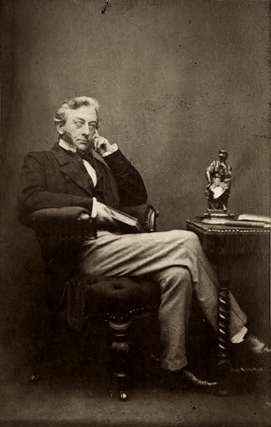 Photographic portrait of John Walpole Willis, judge, produced by an unknown author for The London Stereoscope & Photographic Company. The photograph is an albumen print in the form of a carte de visite. Original held by the State Library of Victoria. Date is unknown; the State Library gives c. 1863 - c. 1890, though Willis died in 1877.